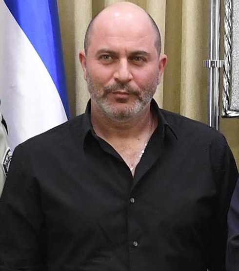 President of Israel, Reuven Rivlin, with the personal of the Israeli television serie, Fauda, Wednesday, February 7, 2018. Photo Credit: Mark Neyman / GPO.